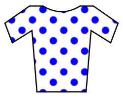 Blue dotted jersey